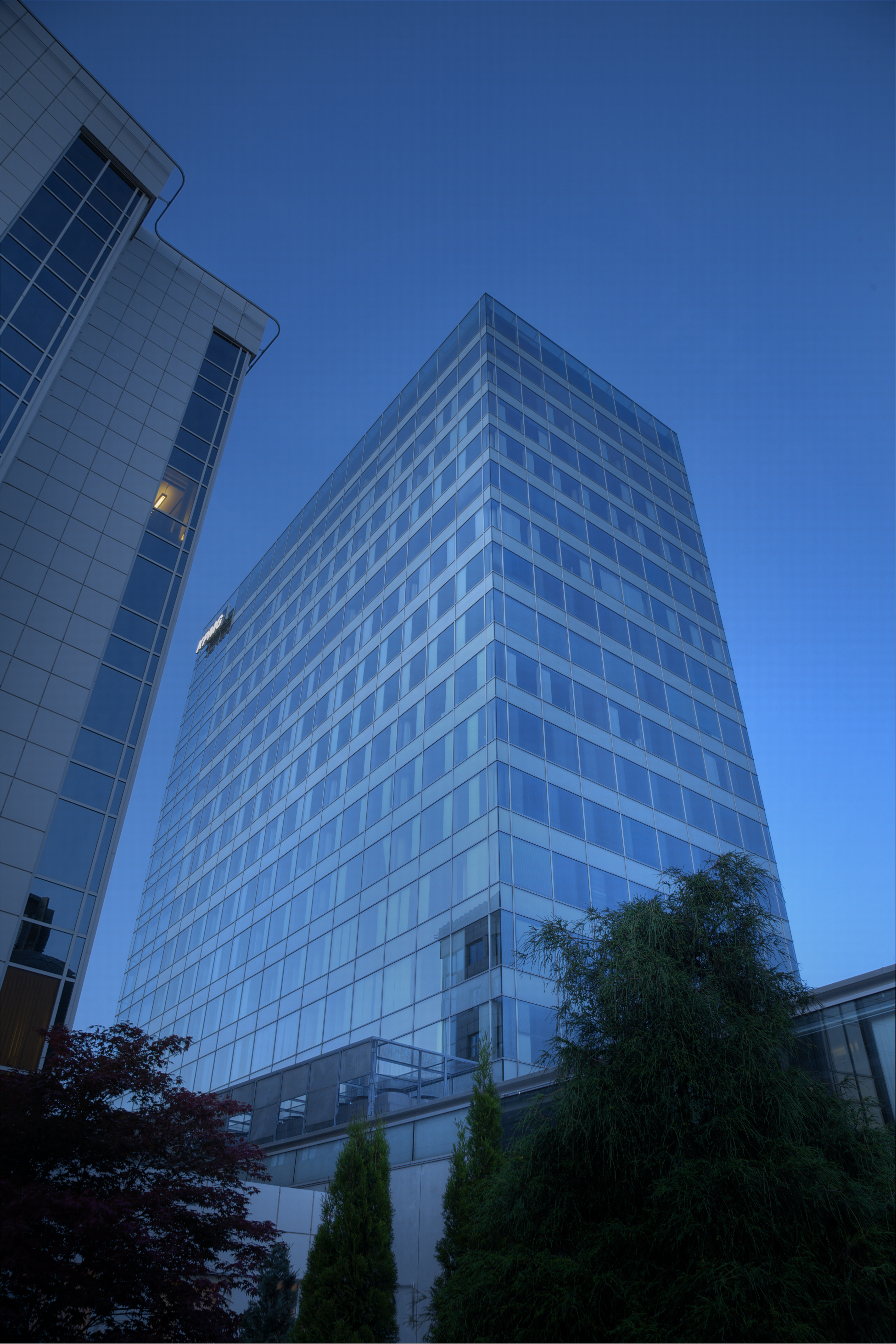 KPMGs office building in Oslo, Norway.